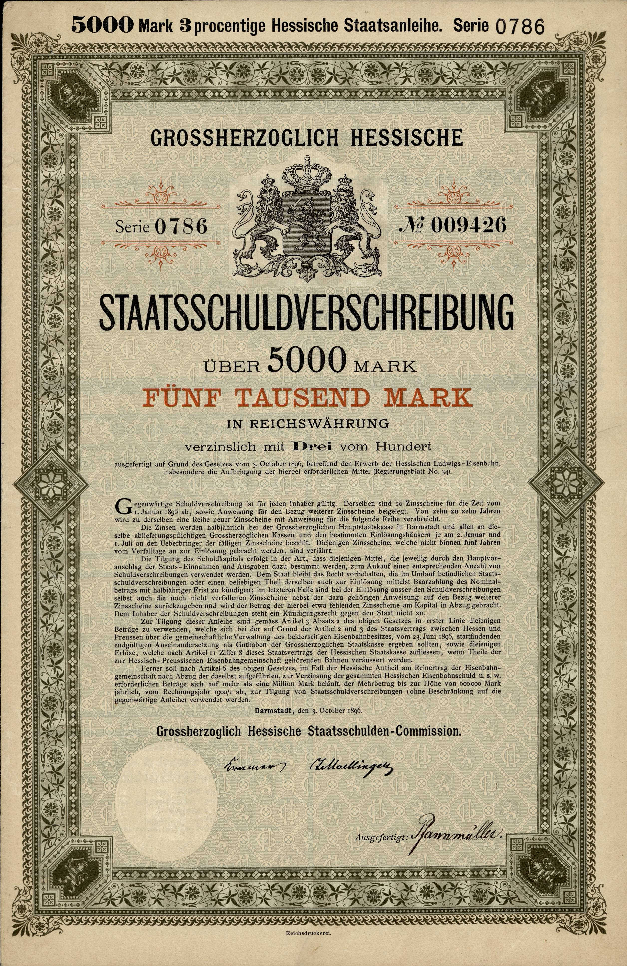 Bond of the Grand Duchy of Hesse, issued 3. October 1896